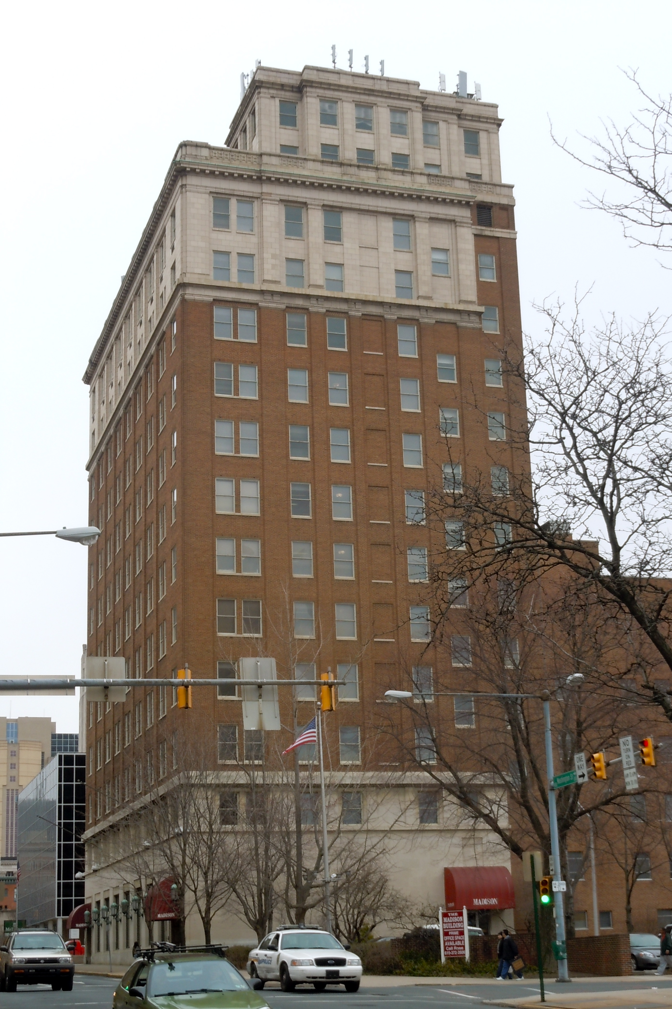 Metropolitan Edison Building on the NRHP since October 28, 1983. At 412 Washington Street in downtown Reading, Berks County, Pennsylvania.